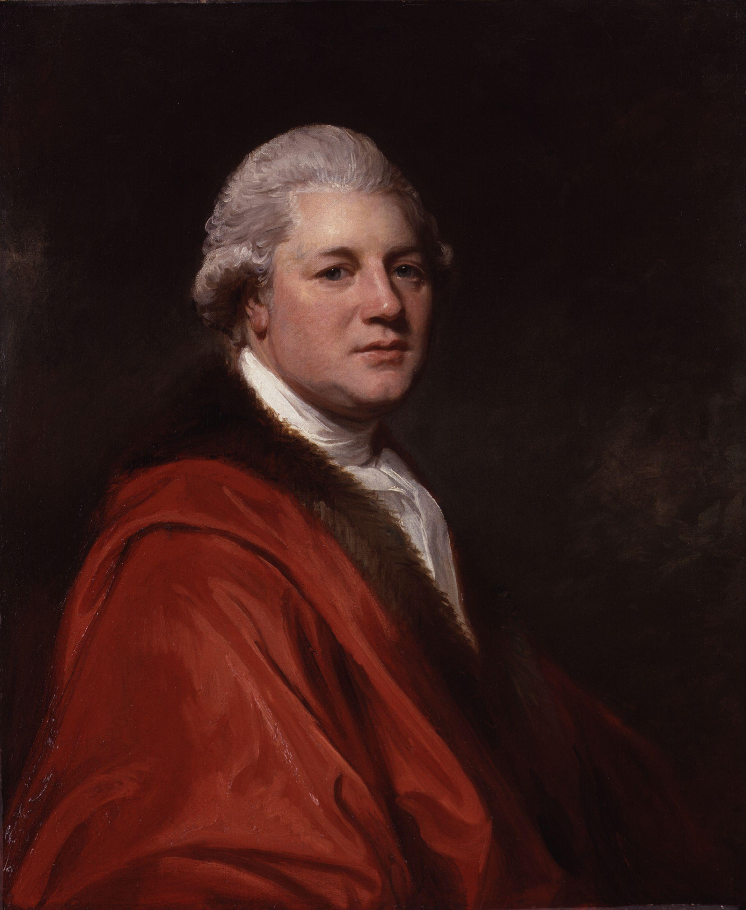 James Macpherson, by George Romney (died 1802). All images in this batch have been confirmed as author died before 1939 according to the official death date listed by the NPG.